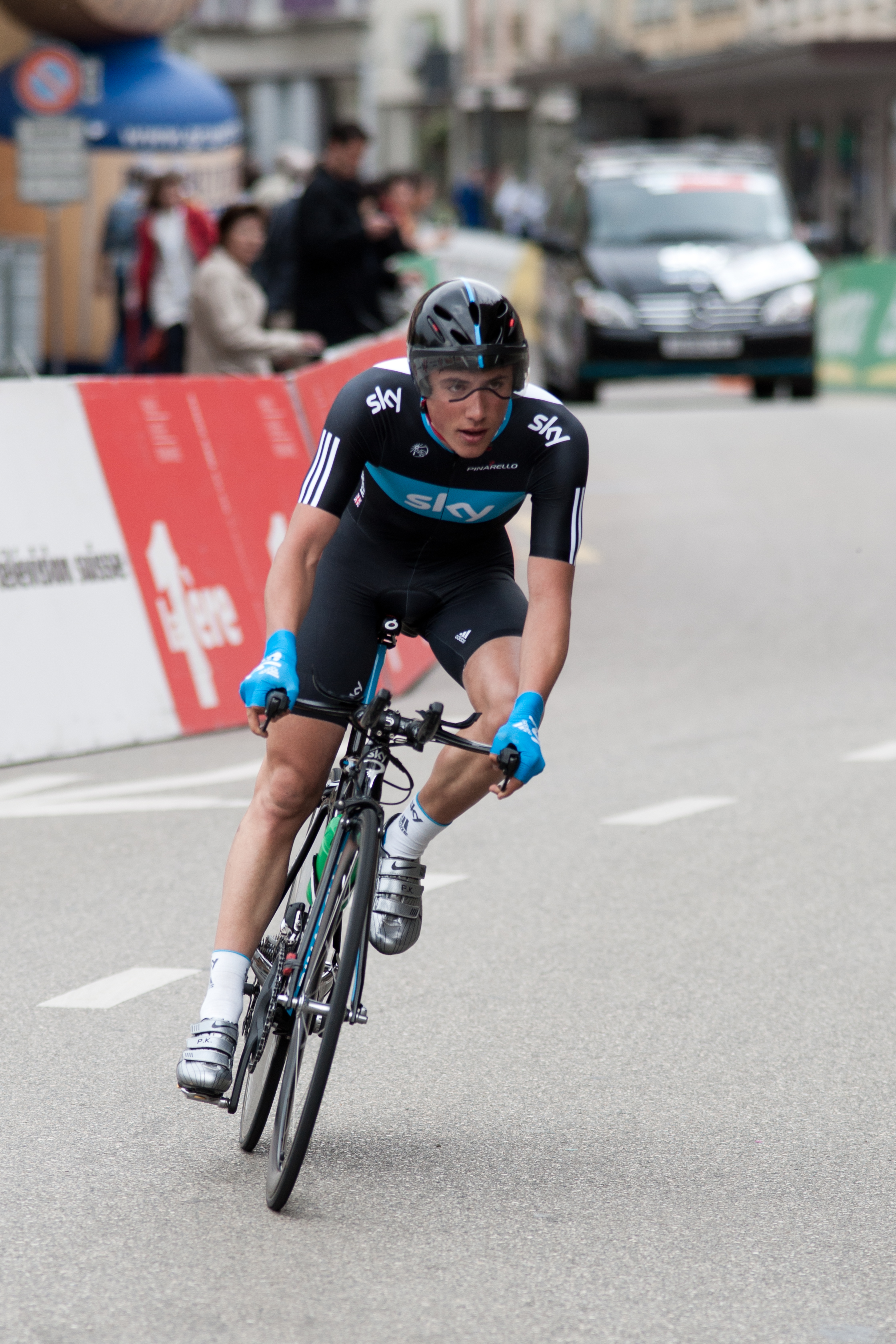 Peter Kennaugh during the 3rd stage of the Tour de Romandie 2010.